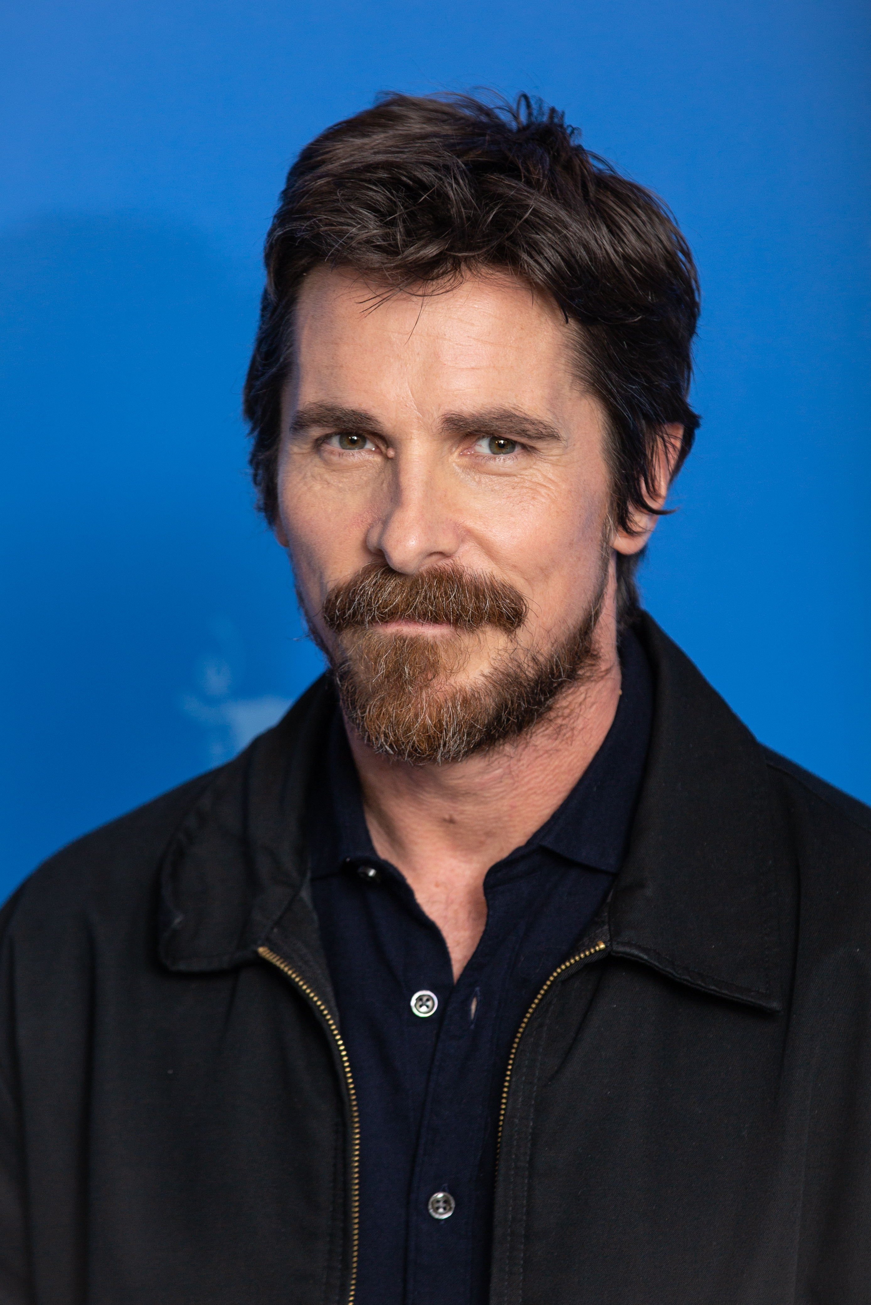 Actor Christian Bale at the Berlinale 2019